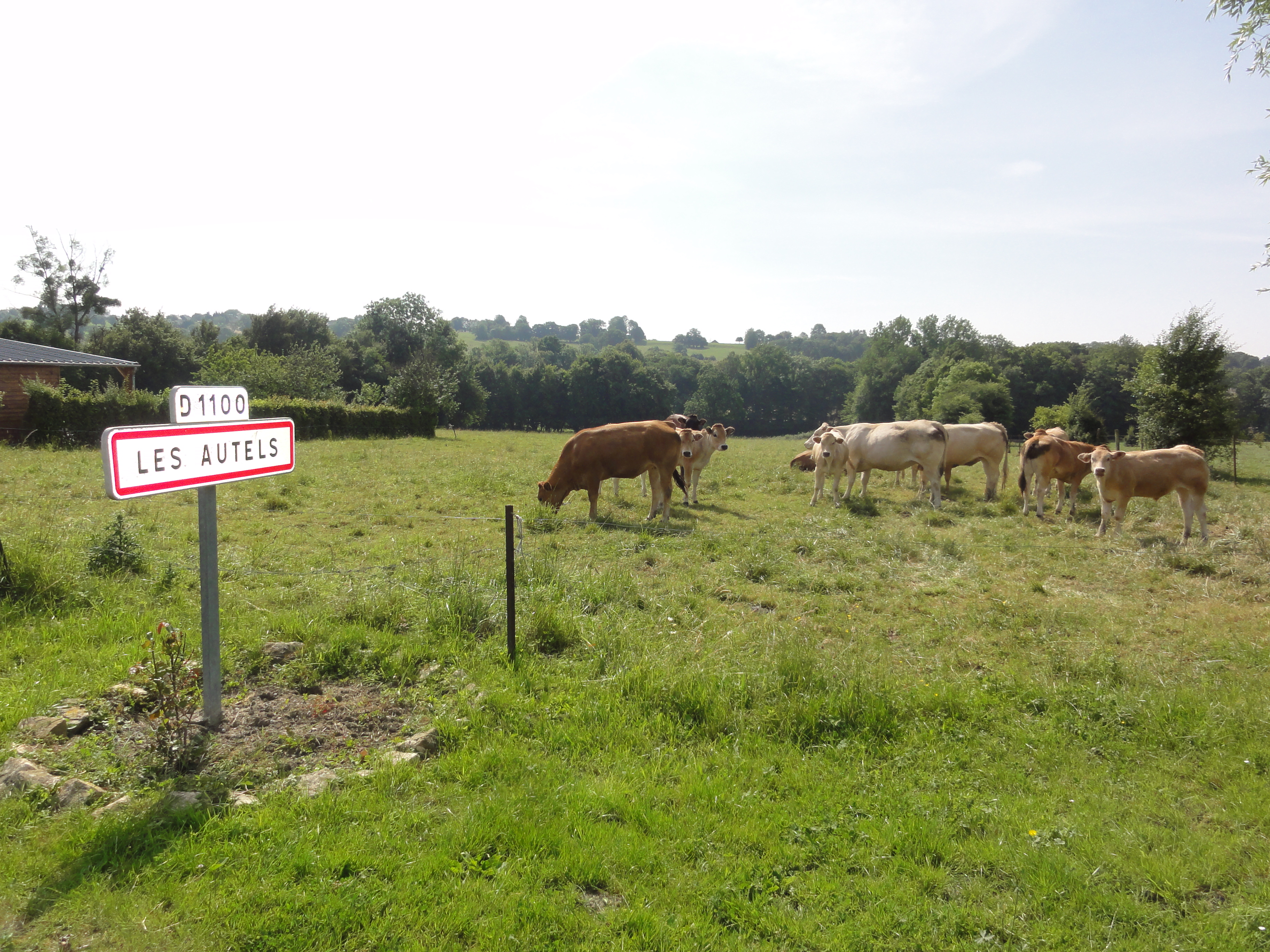 Les Autels (Aisne) landscape and city limit sign